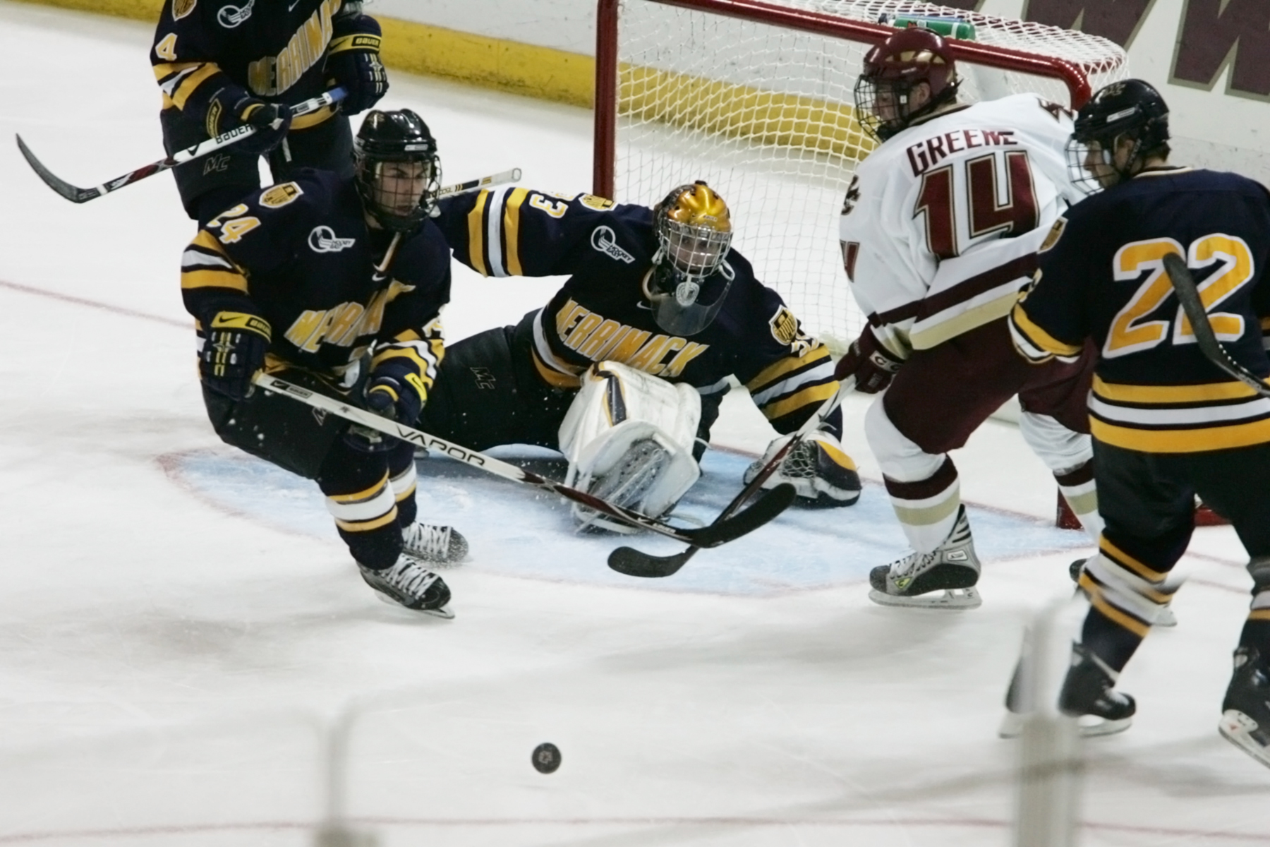 Ice hockey game betw. Merrimack College and Boston CollegeLH3H0607.jpg